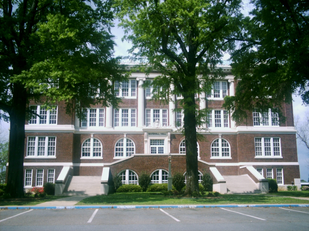 This is a picture of the administration building on the campus of East Texas Baptist University in Marshall, Texas.